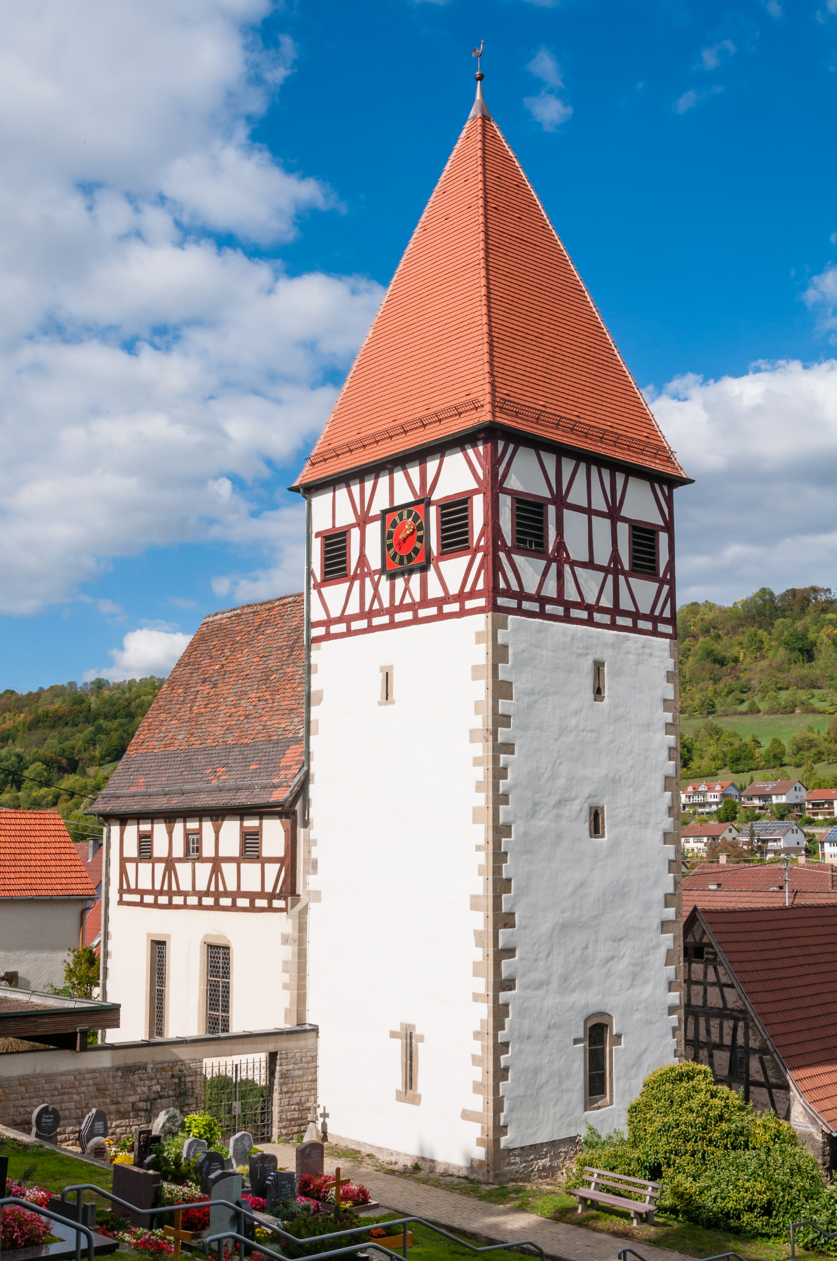 Protestant fortified church Saints Alban and Wendelin in Künzelsau-Morsbach, Germany as seen from south east.